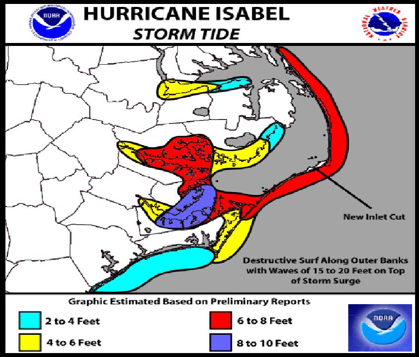 Storm Tide Graphic due to Hurricane Isabel, with tide listed in feet above MSL